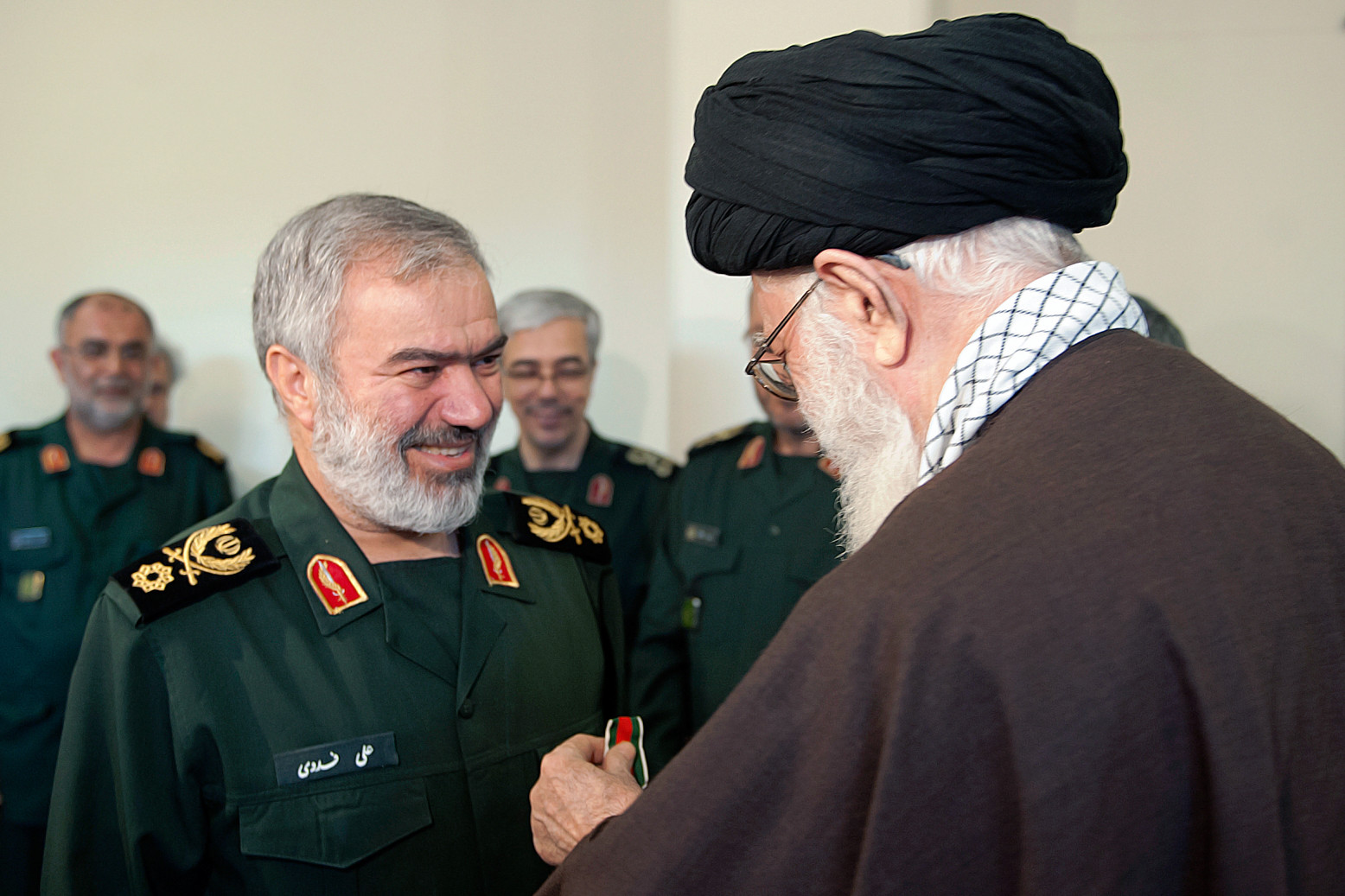 اعطای «نشان فتح» توسط آیت‌الله سید علی خامنه‌ای رهبر جمهوری اسلامی ایران به سردار فدوی فرمانده نیروی دریایی سپاه پاسداران انقلاب اسلامی و چهار تن از فرماندهان این نیرو که در جریان توقیف شناورهای آمریکایی و بازداشت تفنگ‌داران آمریکایی در محدوده‌ی جزیره‌ی فارسی به مرزهای آبی ایران تجاوز کردند، اقدام کرده بودند